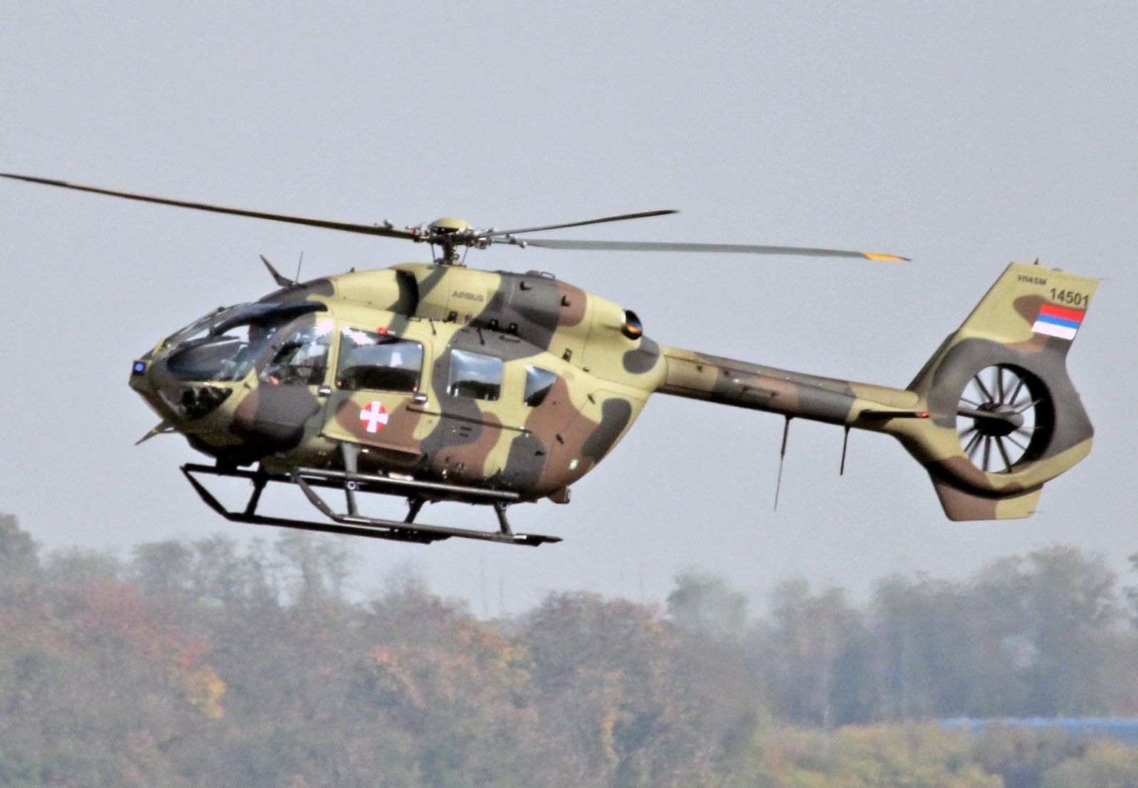 Serbian H145